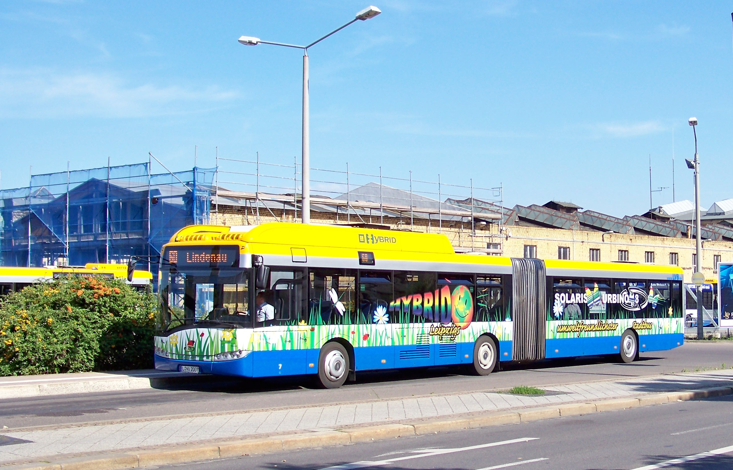 Solaris Urbino 18 Hybrid I (Allison) bus (#7) in Leipzig, Germany. Built 2007, LVB Leipzig operator.